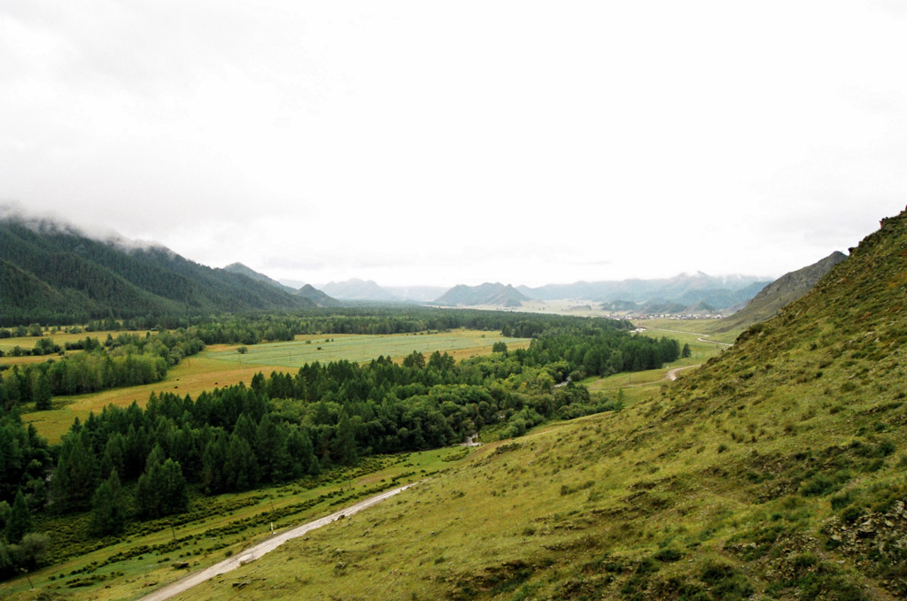 Uch-Enmek. View of the Karakol valley.